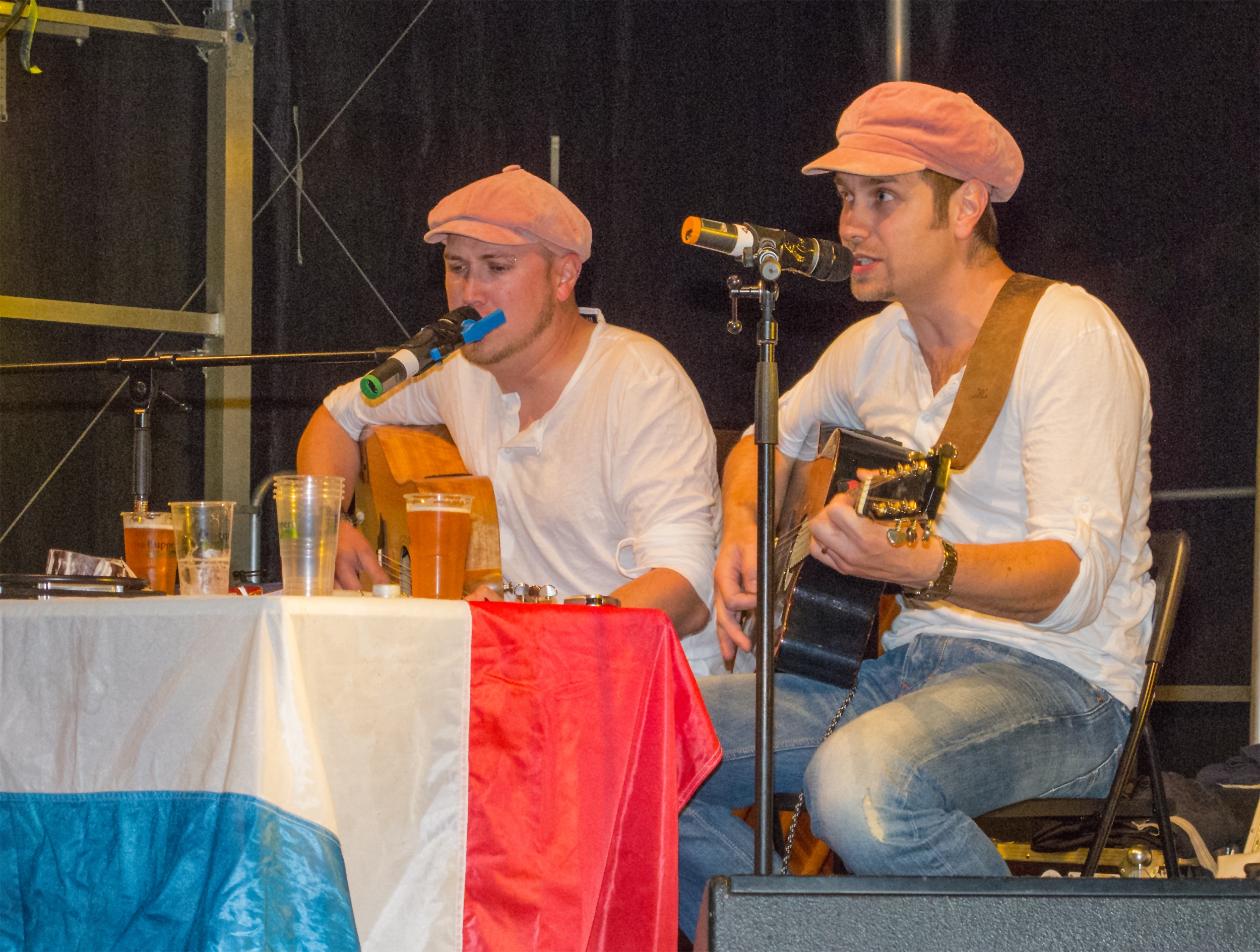 Michel and Luc Guillaume of the music group Dëppegéisser at the Fête de la musique 2013 in Niederanven